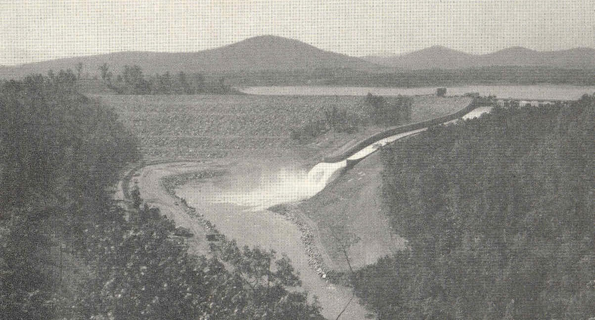 TVA's Nottely Dam on the Nottely River in Union County, Georgia, USA. Water is rushing down the dam's "ski-jump" spillway in the right half of the photo.